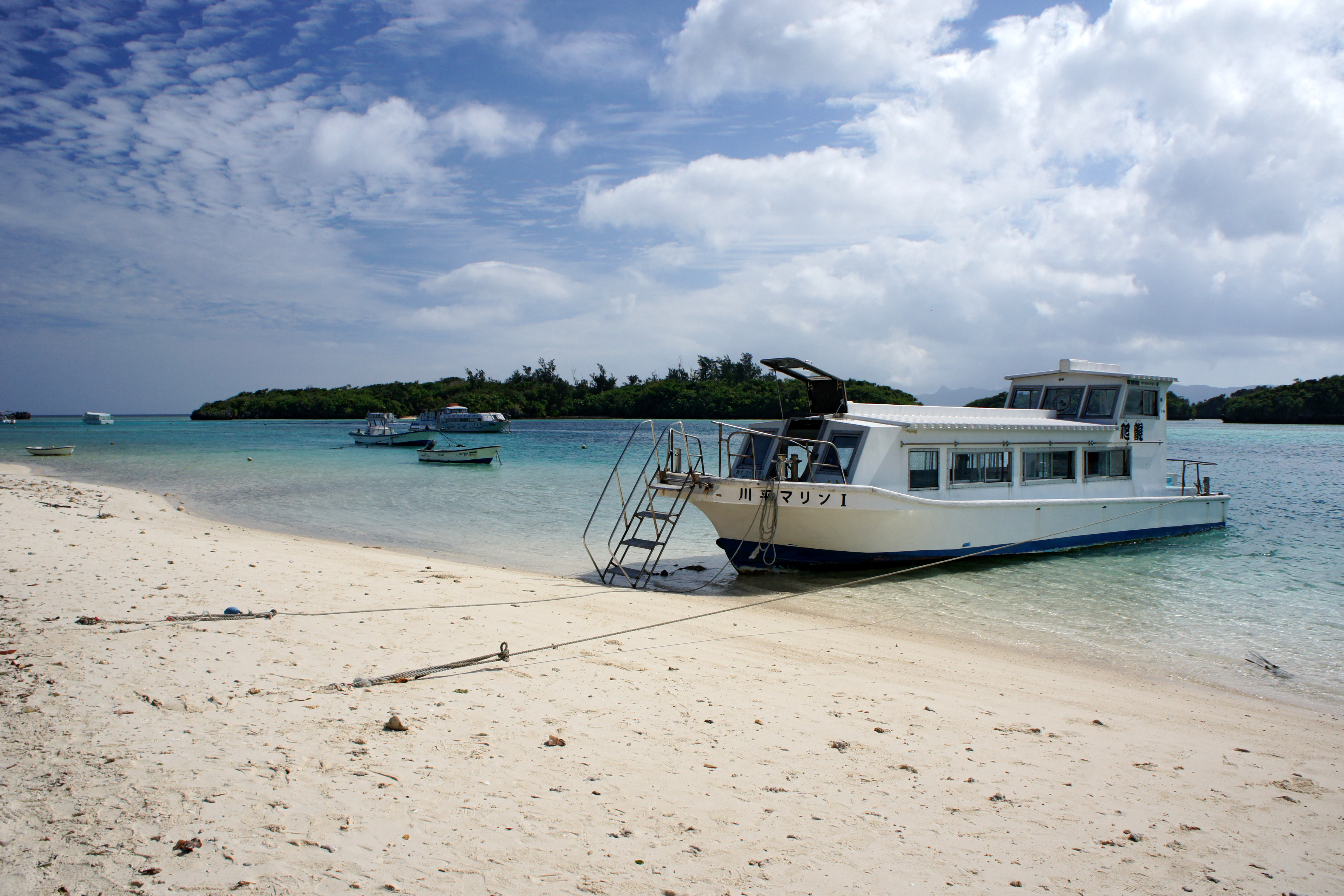 Kabira Bay of Ishigaki Island in Ishigaki City, Okinawa Prefecture, Japan. It is one of the Japan's Places of Scenic Beauty.